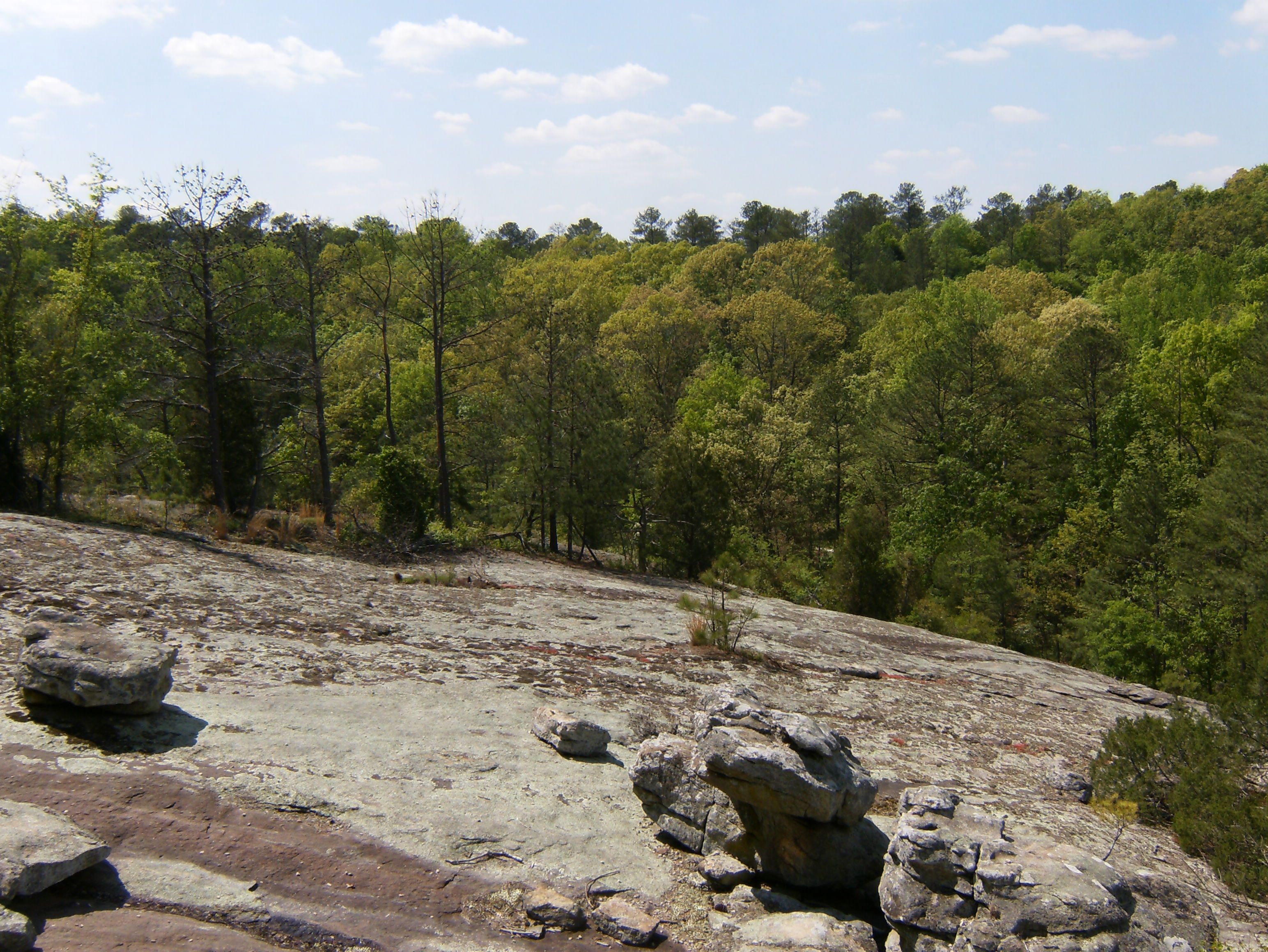 View of Panola Mountain